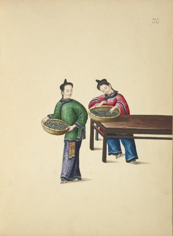 China watercolours illustrating silk production, 1800s. Women with baskets of silkworms.